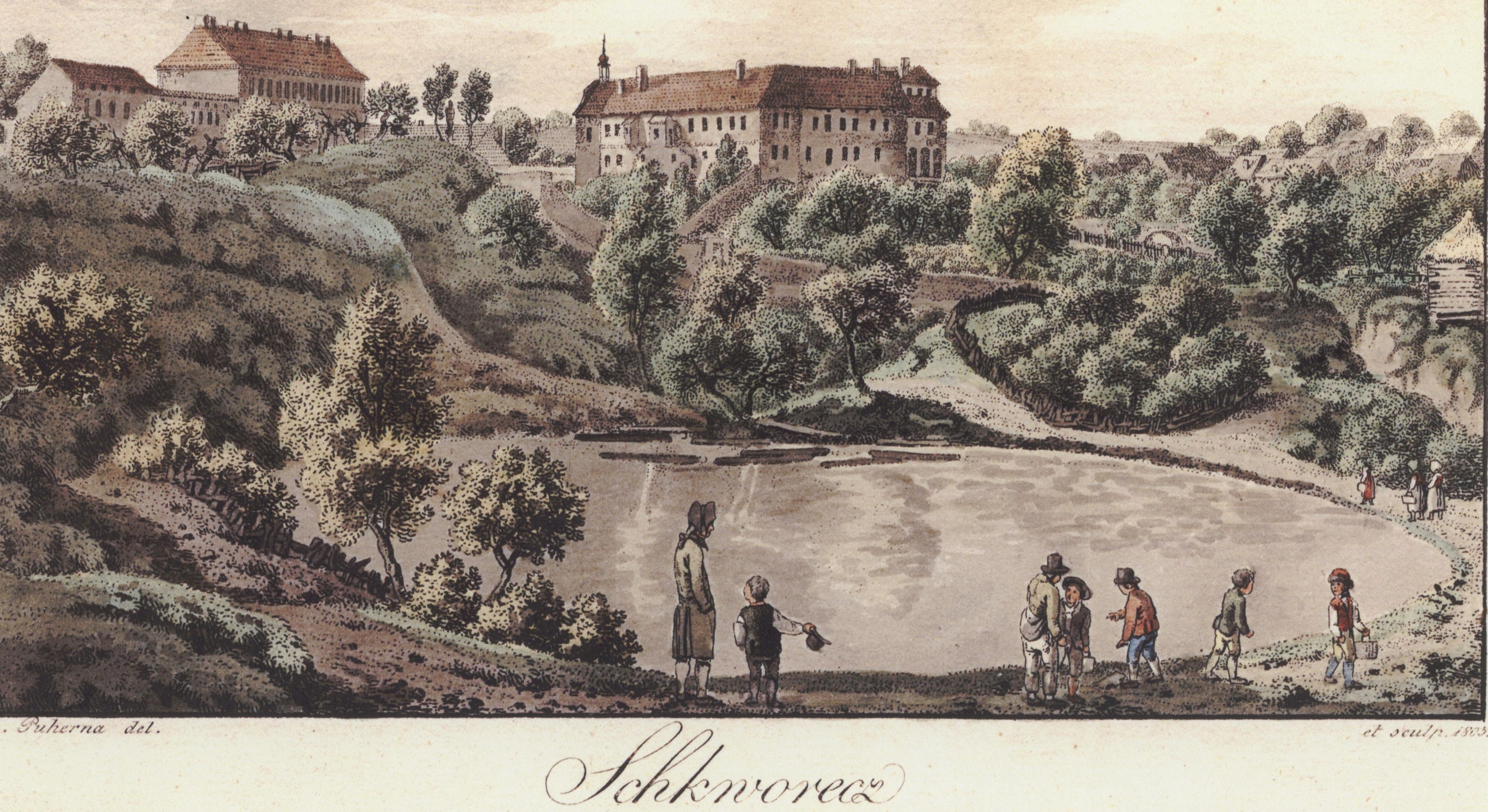 Skvorec Castle 1805